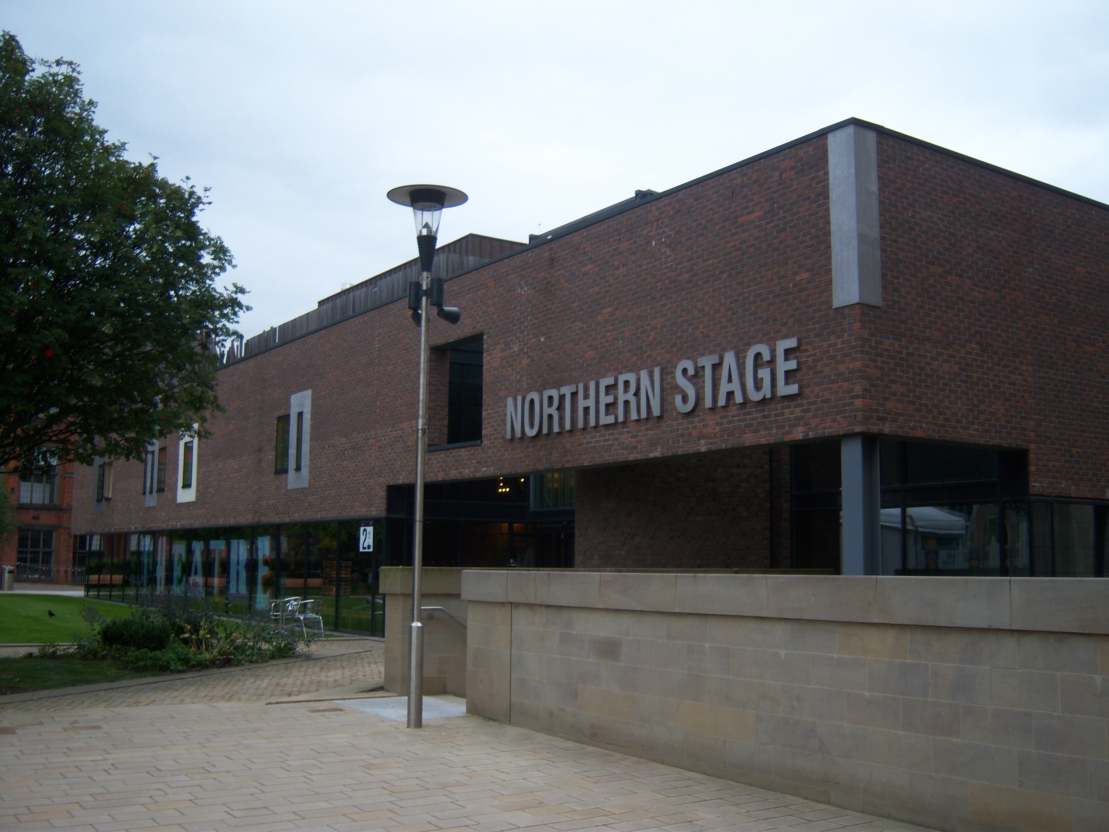 Northern Stage, Newcastle University. SW facade.